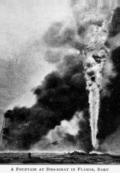 Oil well ablaze